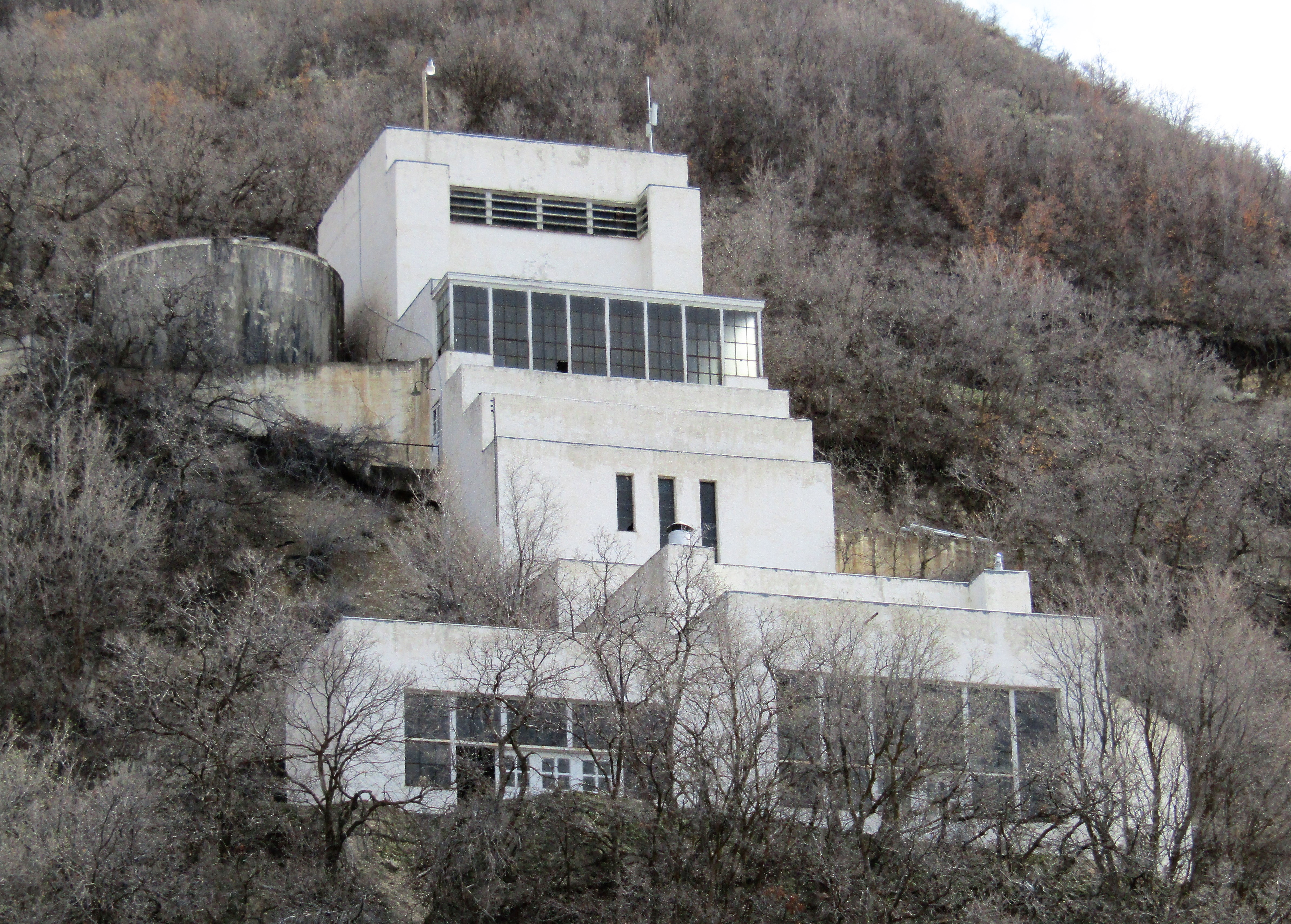 Bishop John Koyle's "Dream Mine" in Salem, Utah.